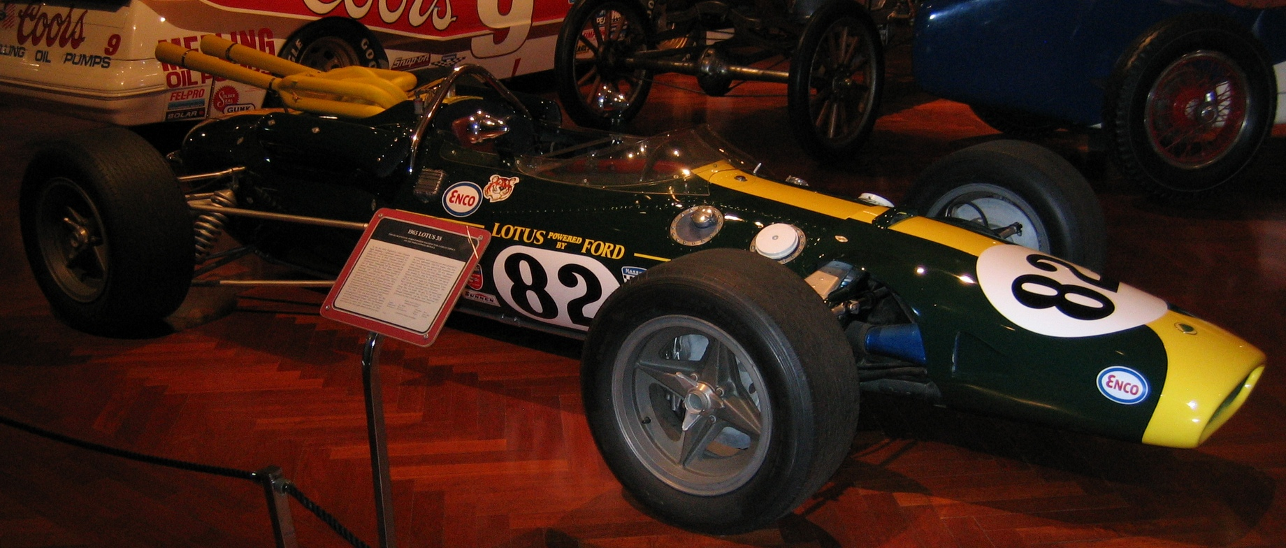 1965 Lotus 38